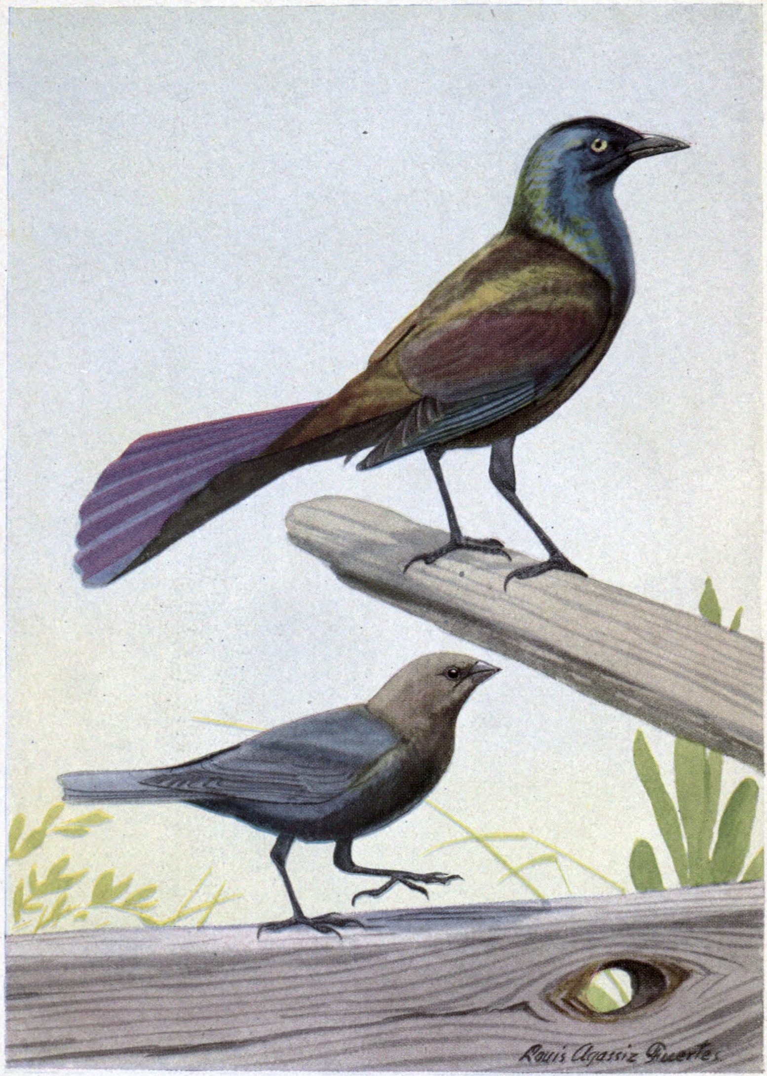 Illustration by Louis Agassiz Fuertes of a Common Grackle and a male Brown-headed Cowbird, from The Burgess Bird Book for Children